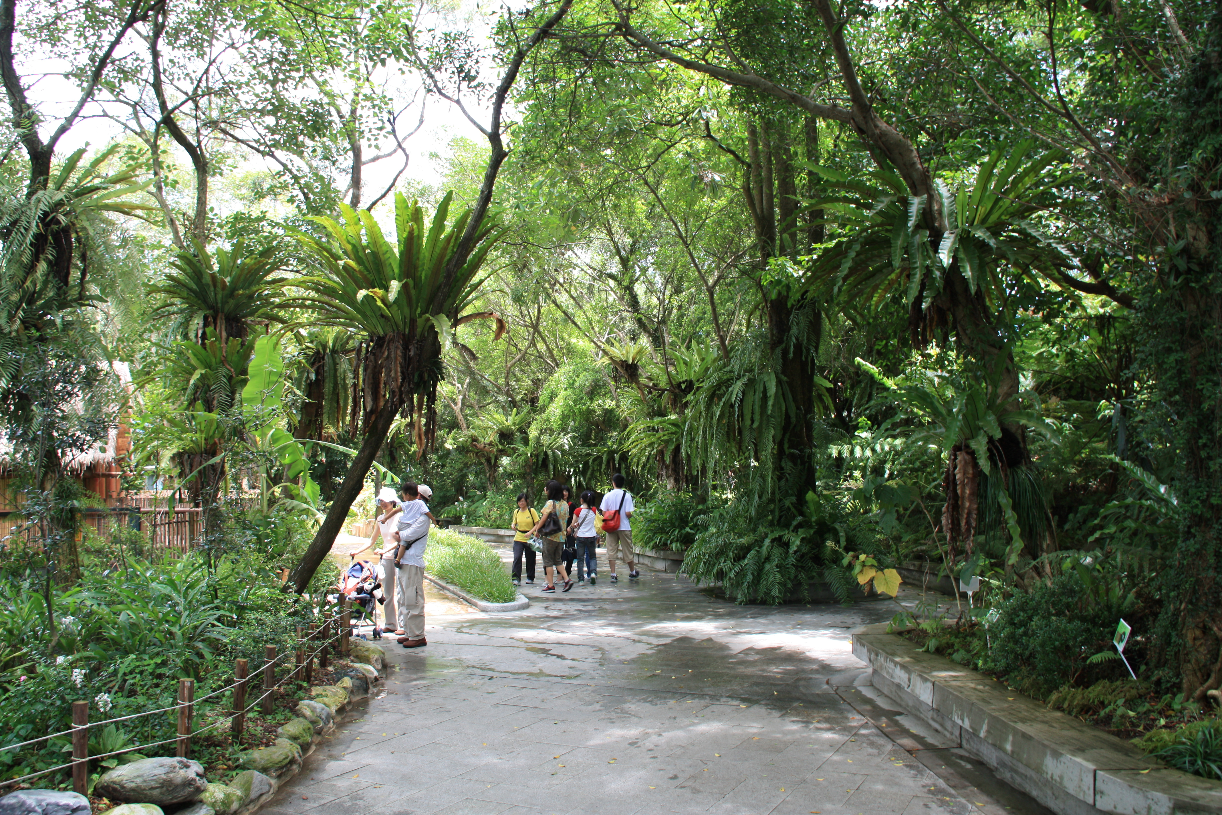 Táiběi Wénshān District Táiběi Zoo Formosan Animal Area